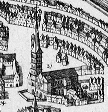 Bremen Cathedral between 1638 (first collapse of the southern tower) and 1642 (first edition of the print